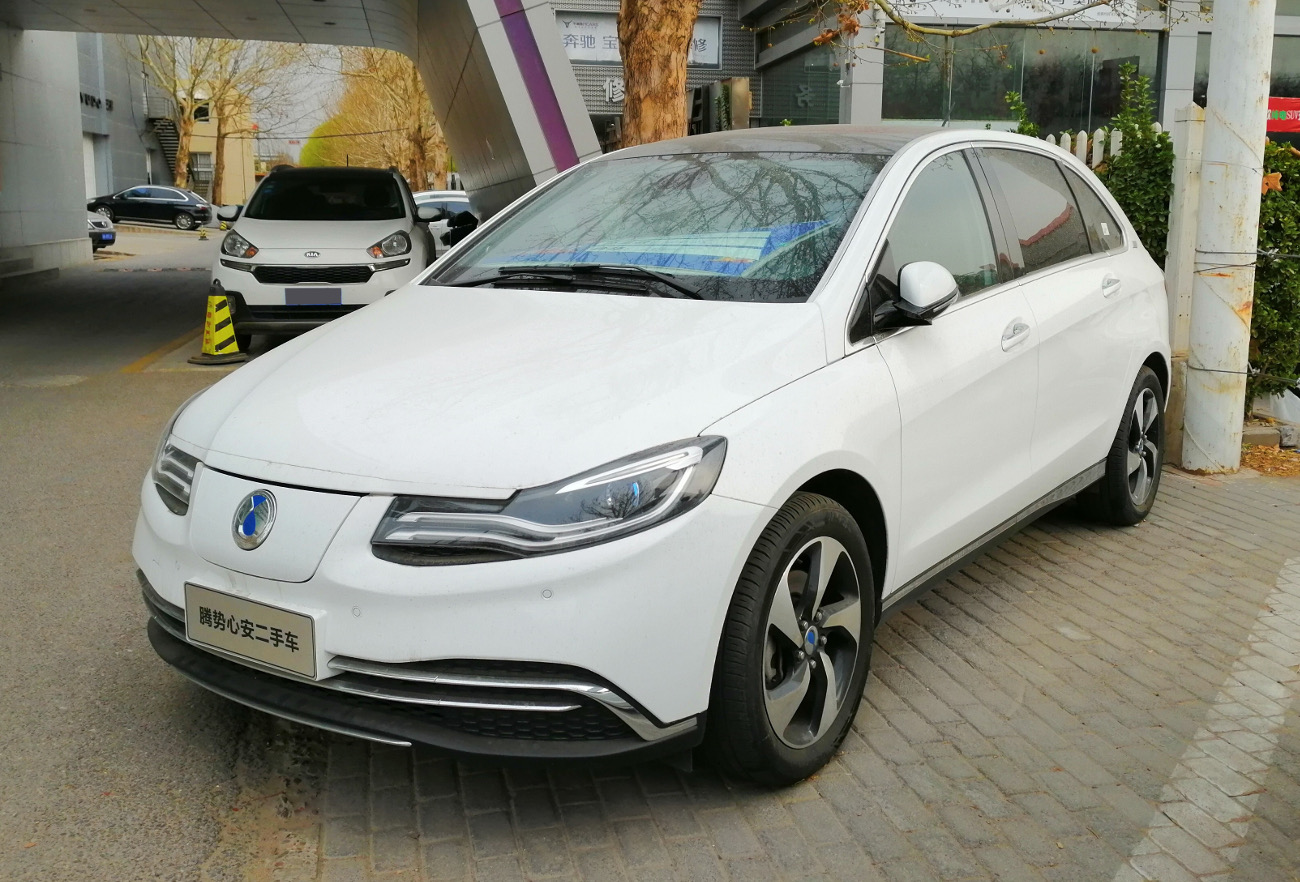 Denza 500 photographed in Beijing, China.